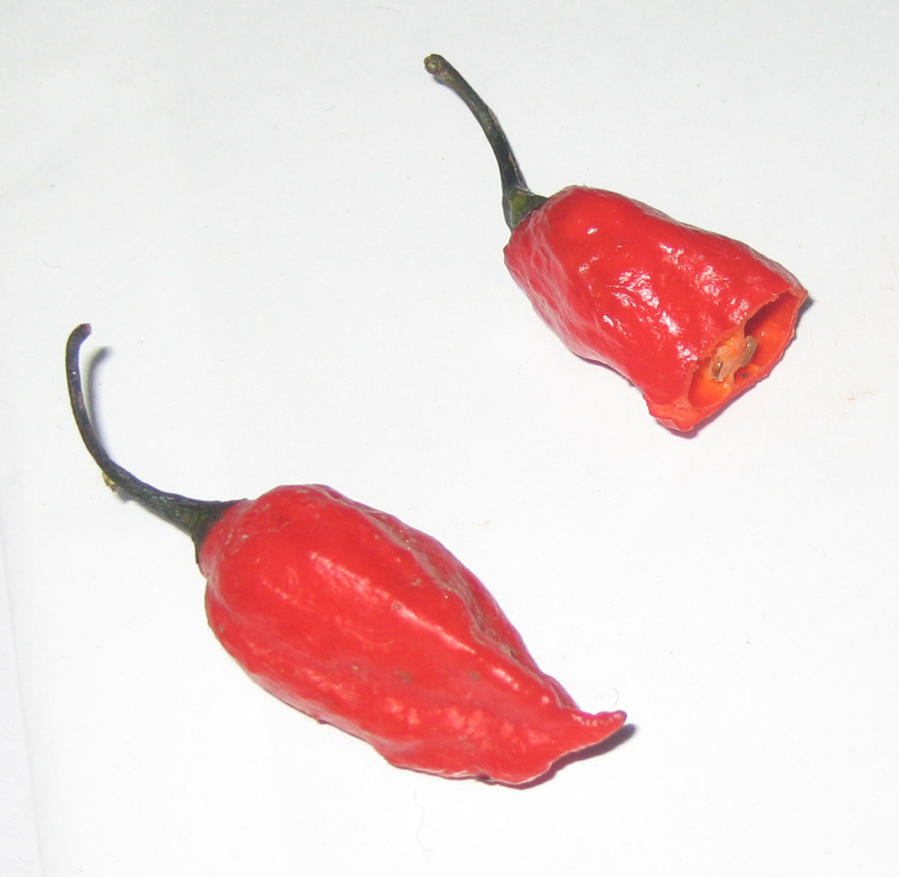 Naga Jolokia peppers, purchased in the main vegetable market in Tezpur. This picture was taken by Gannon Anjo in Tezpur, Assam, India on October 11th, 2006 in a hotel room after the peppers were purchased.